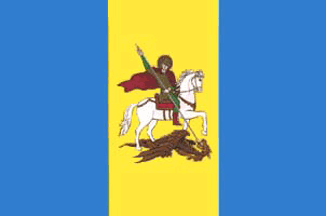 Flag of Kyiv Oblast, Ukraine